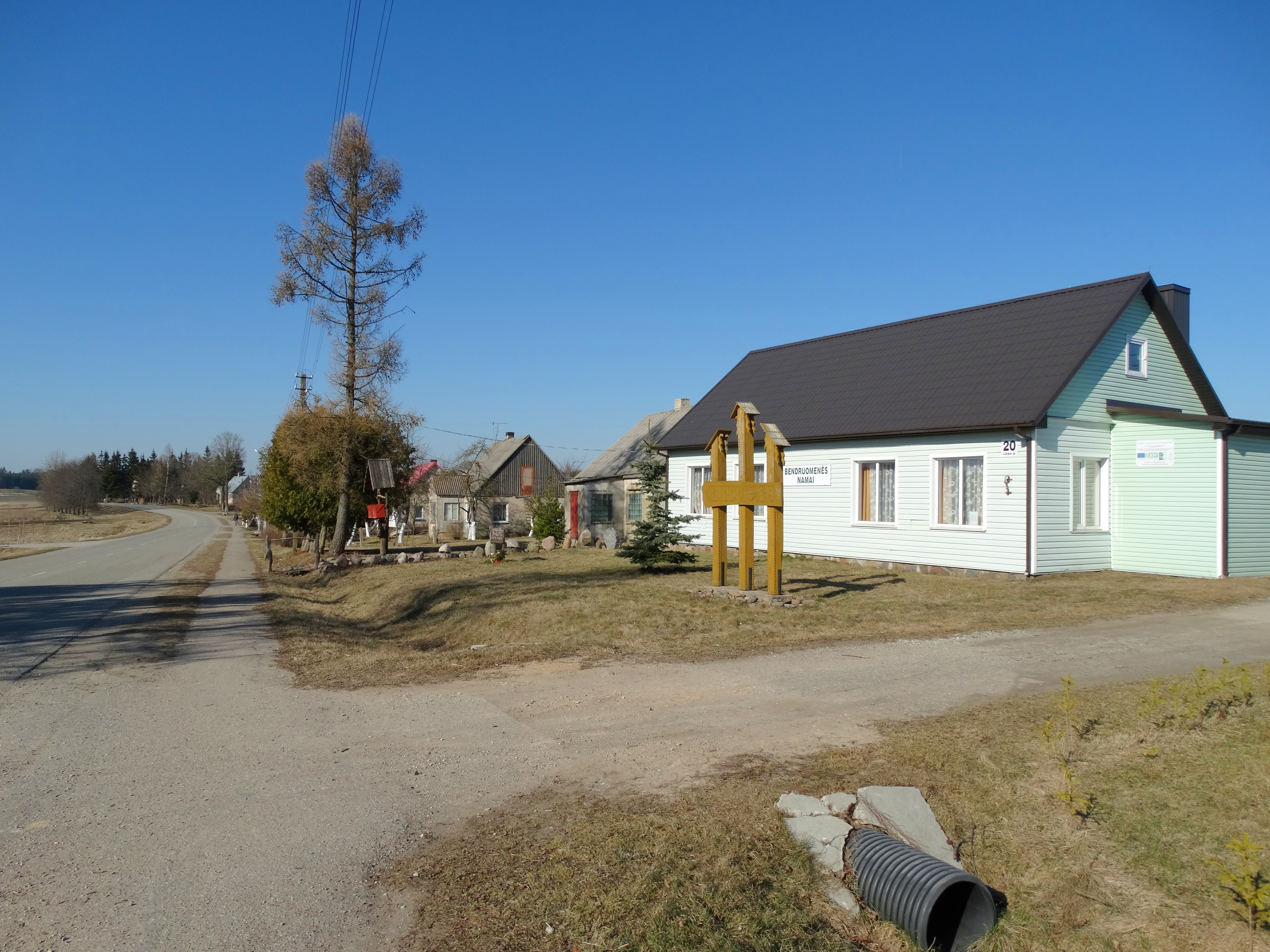 Kunigiškiai, Radviliškis district, Lithuania